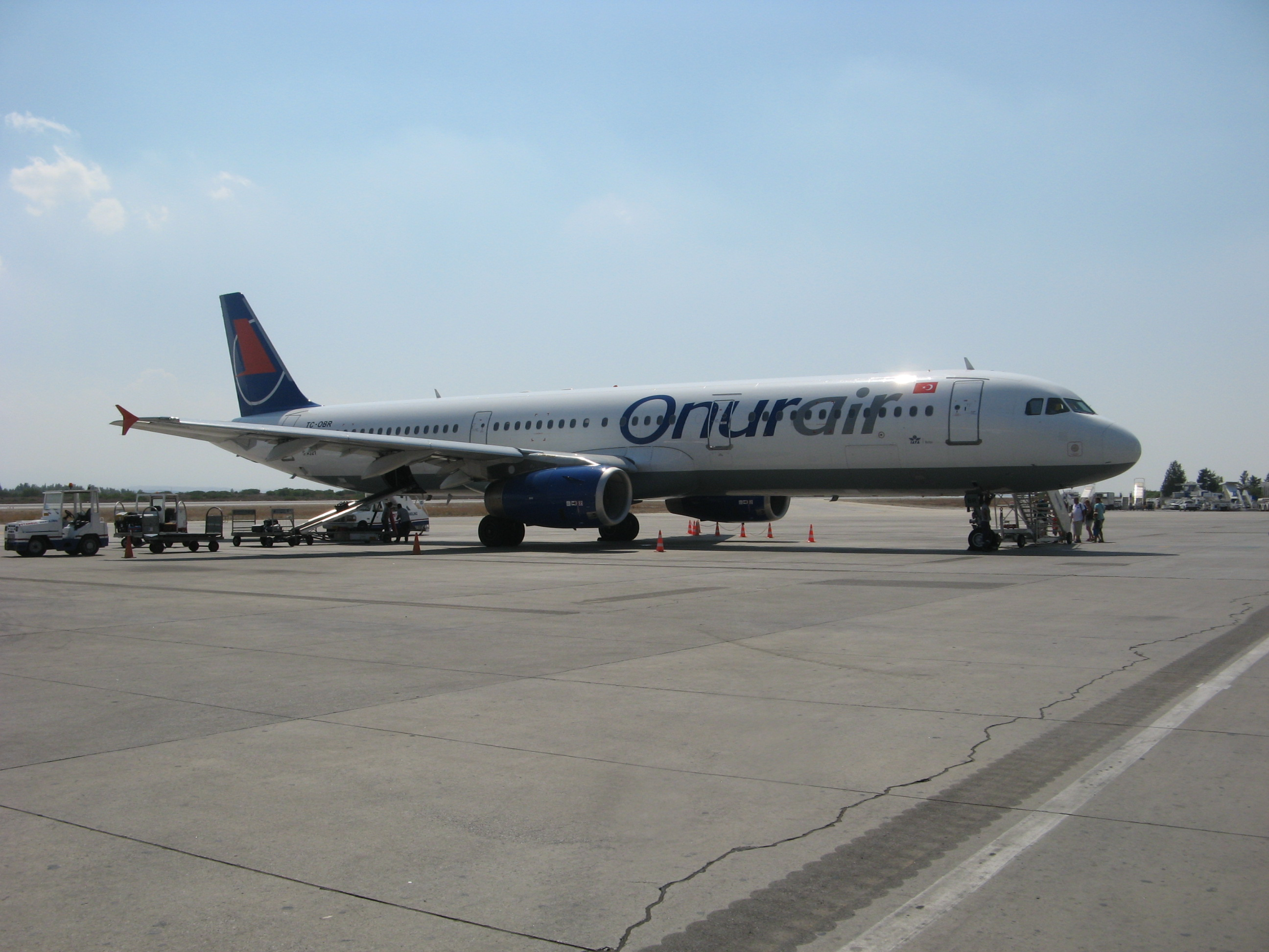 TC-OBR, Airbus A321-131/231, Ercan international airport, 2014